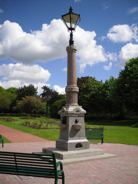 The Robert Hamilton Memorial This memorial drinking fountain can be found in the Westend Park in Airdrie.